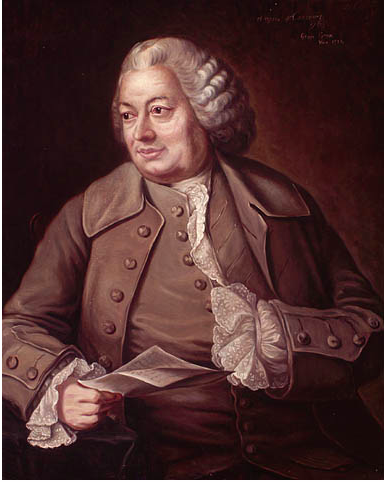 Thomas Pichon Library And Archives Canada